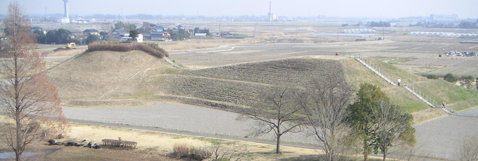 Inariyama kofun in Saitama prefecture